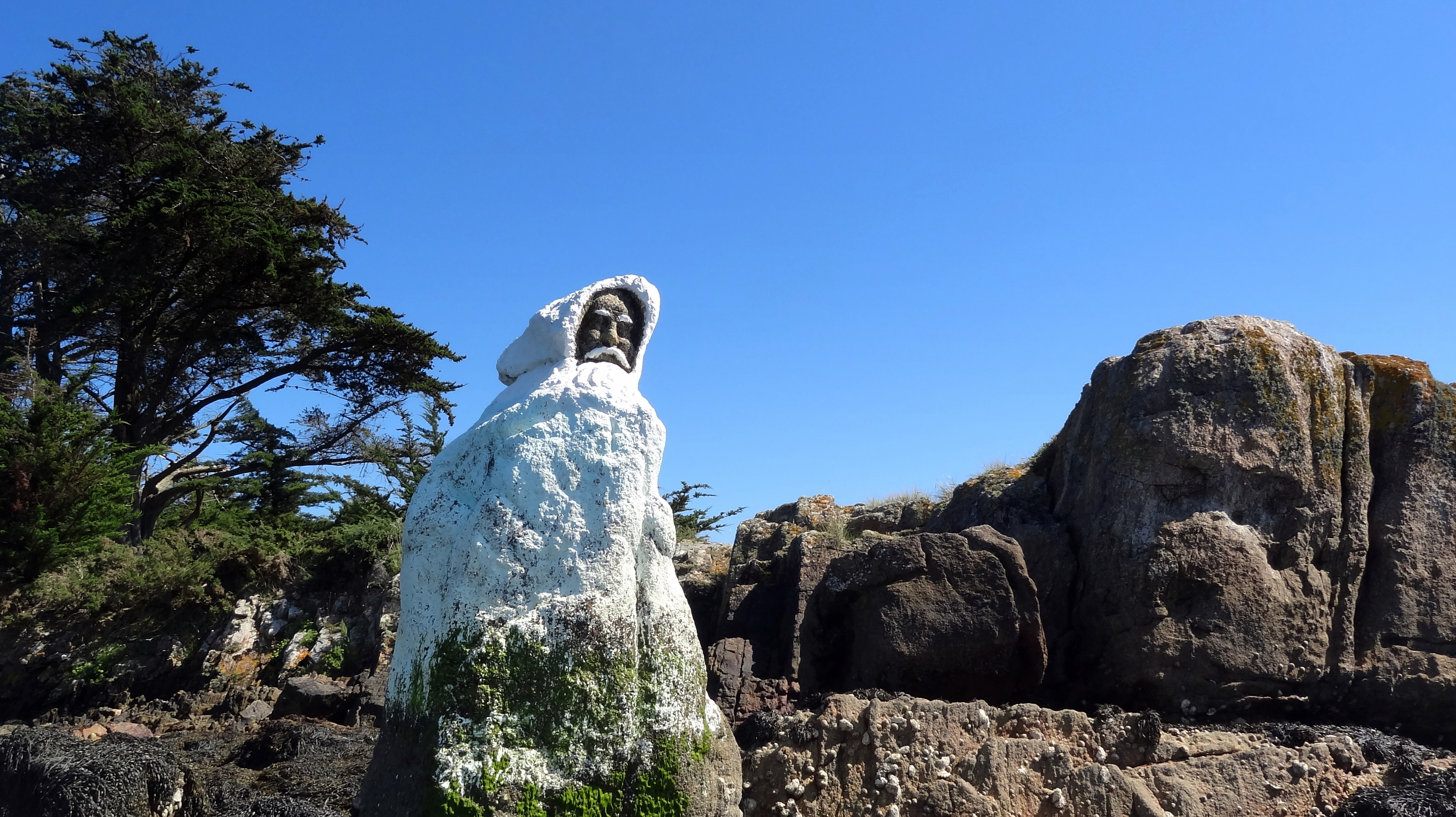 The monk of Boëdic island, in the Gulf of Morbihan (France).